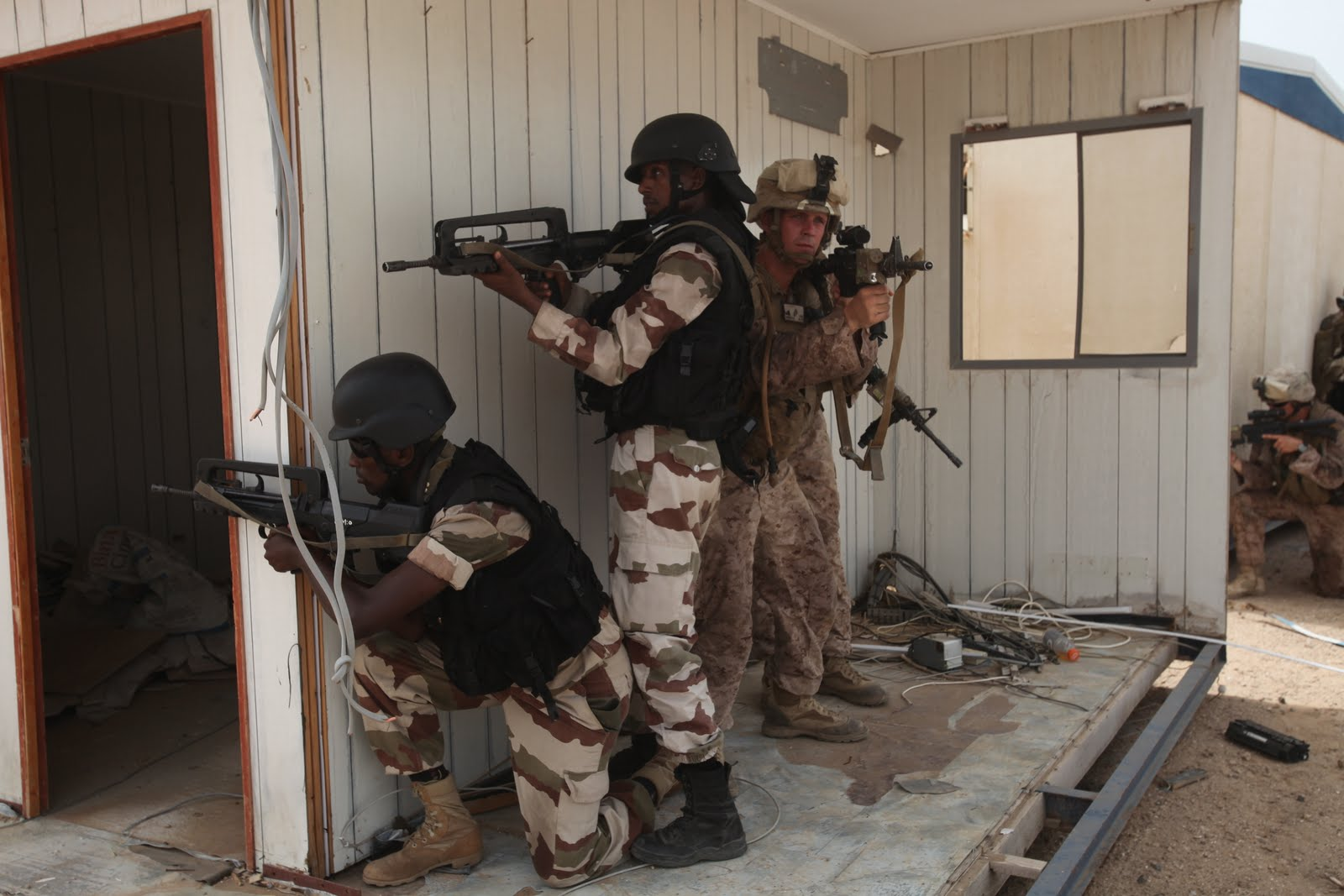 110615-M-XU108-023 Camp Moussa, Djibouti, Africa (June 15, 2011) U.S. Marines from, 1st Platoon, Charlie Company, Battalion Landing Team 1/1, 13th Marine Expeditionary Unit(MEU), and Groupe d’Intervention de la Gendarmerie Nationale(GIGN) troops provide overwatch security as a building is being cleared during the BLT’s mil-to-mil partnership exercise aboard Camp Moussa, Djibouti June 15. The 13th MEU is deployed with the Boxer Amphibious Ready Group, also providing support for Maritime security operations and theater security cooperation efforts in the U.S. 5th Fleet area of responsibility. (U.S. Marine Corps photo by SSgt Donald Bohanner/ released)